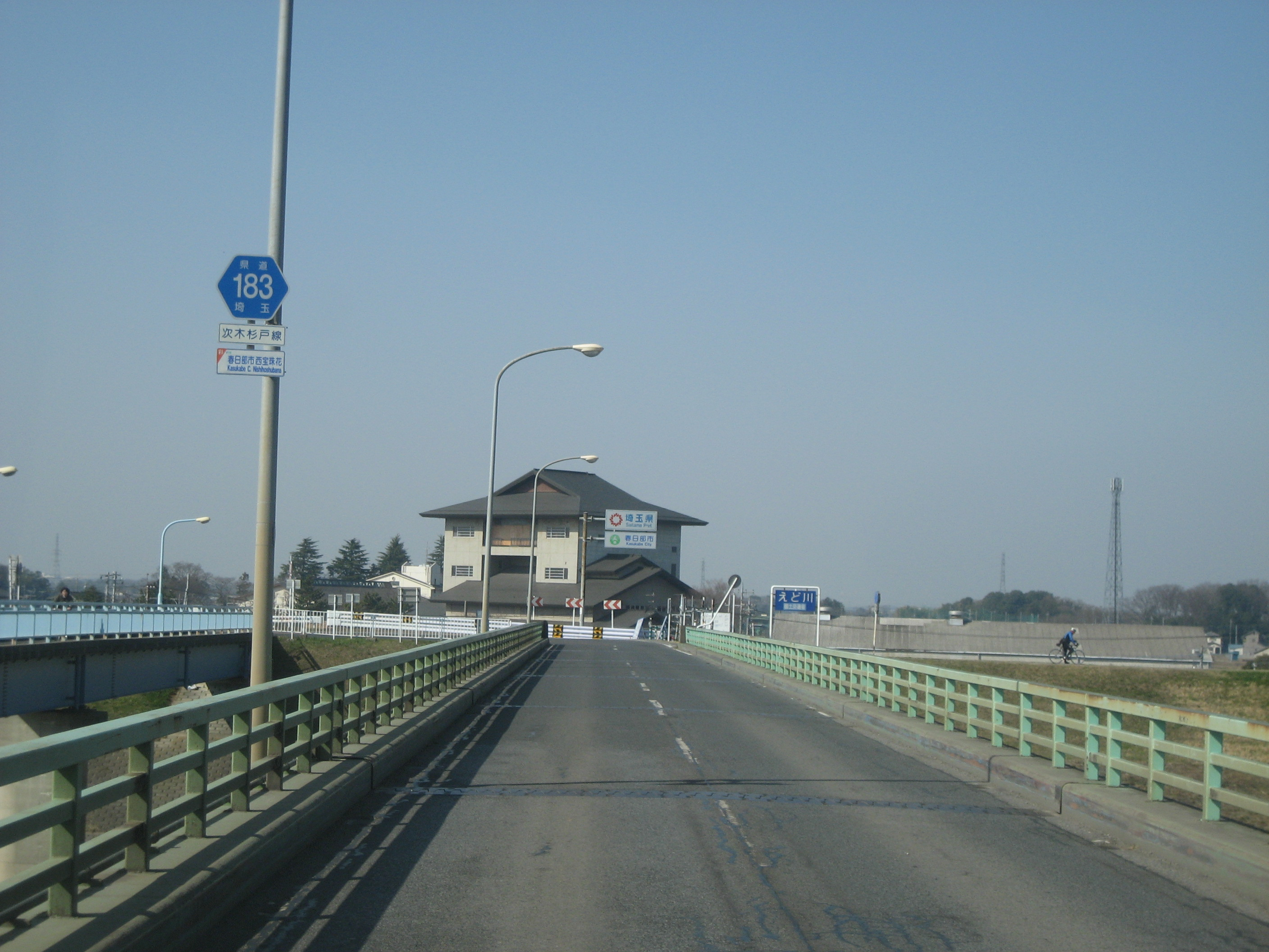 The Saitama Prefectural Road Route 183 in Nishihoshubana, Kasukabe City